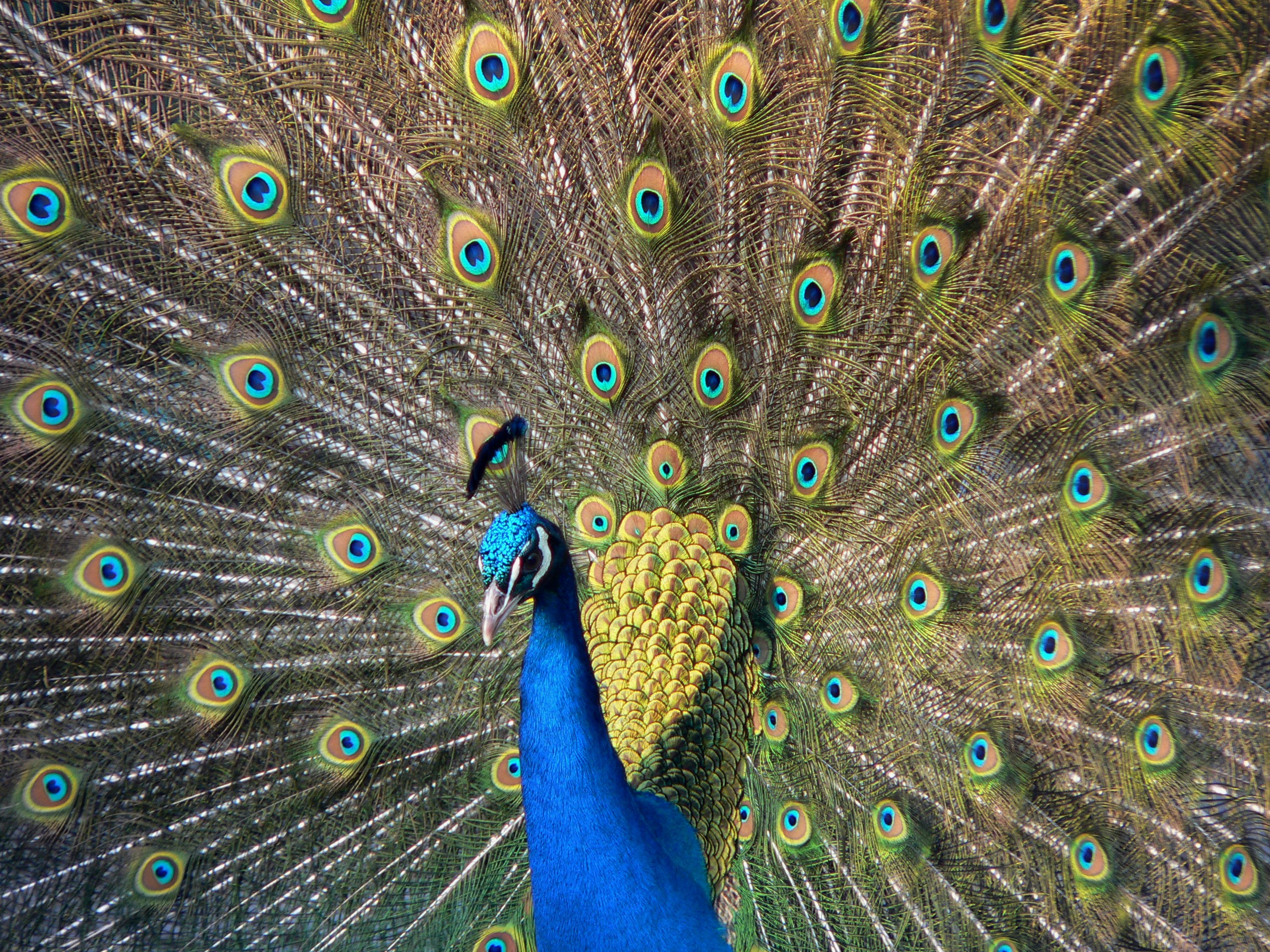 Peacock (Pavo cristatus), displaying his tail, Duisburg Zoo.